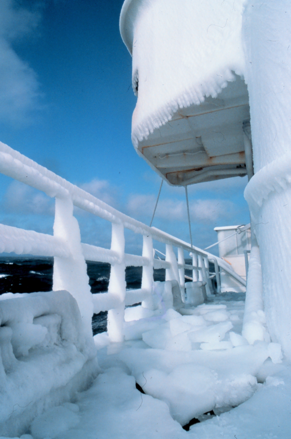 The MILLER FREEMAN iced up Image ID: ship0040, NOAA's Fleet Then and Now - Sailing for Science Collection Photographer: Captain Robert A. Pawlowski, NOAA Corps